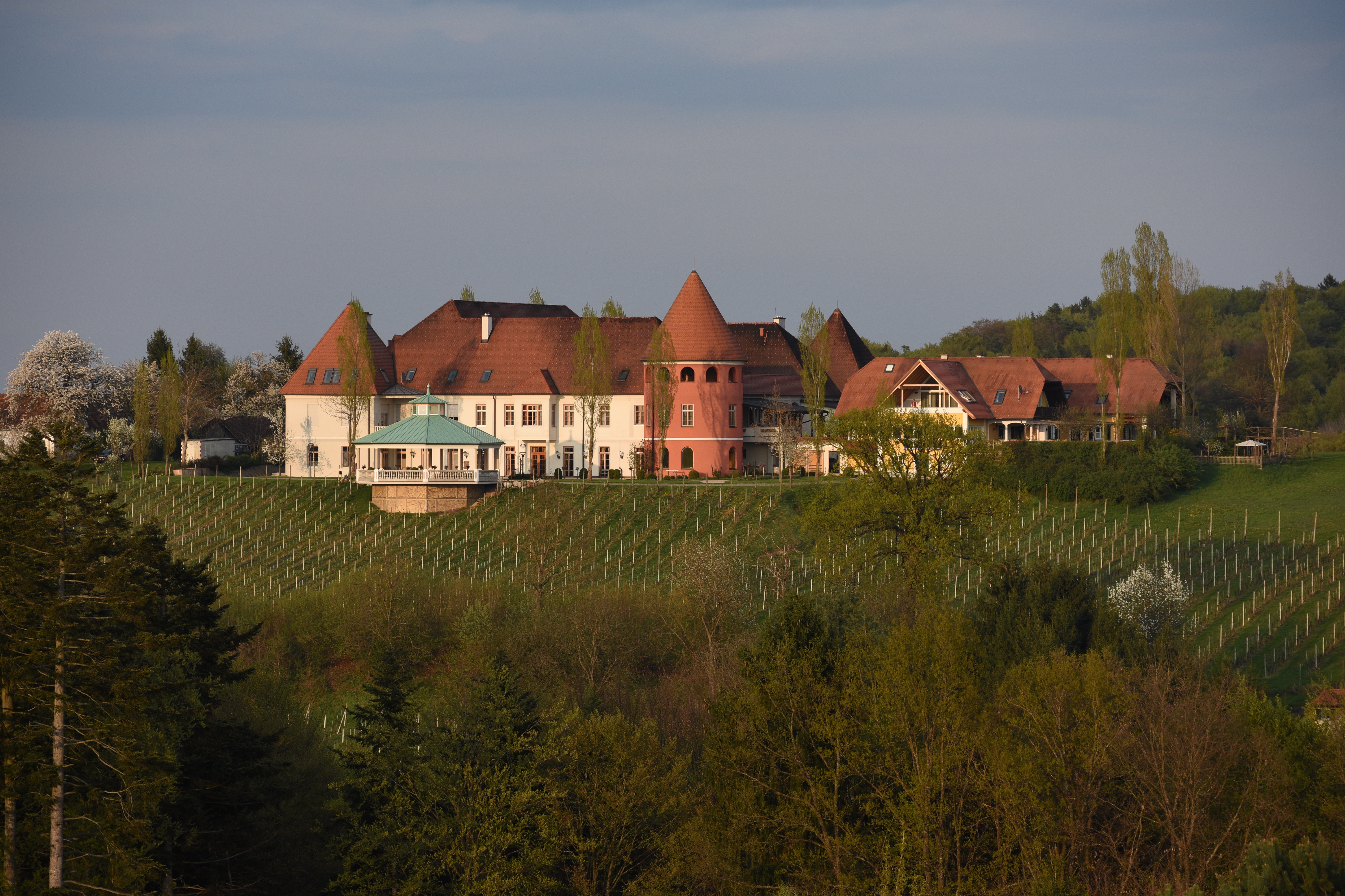 Winecastle Maierhofen